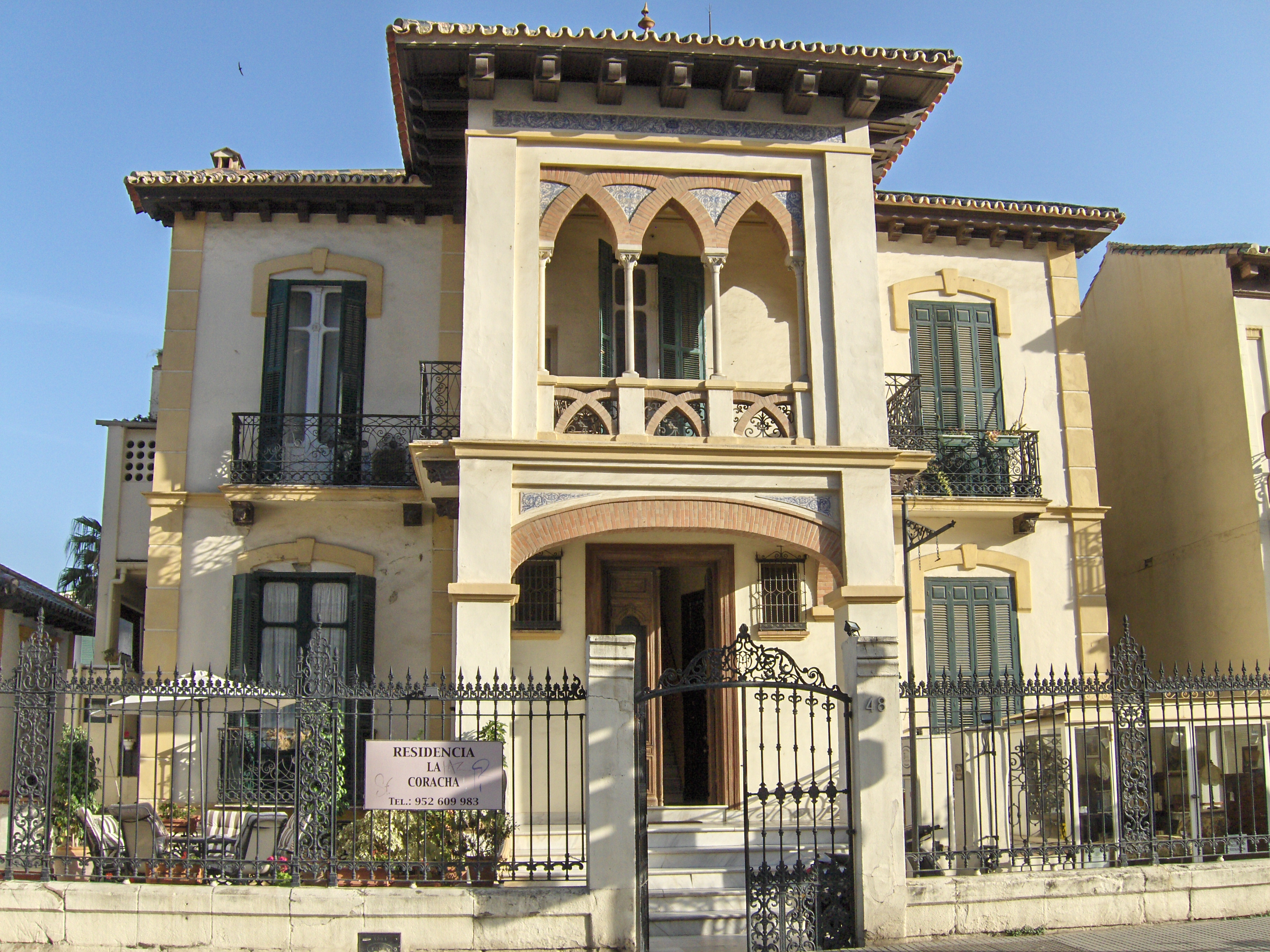 House in La Caleta, Málaga. Architect: Fernando Guerrero Strachan. Early 20th century.